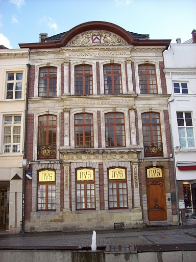 Historic building 'Huis Ghellinck' in the Kortrijk Lange Steenstraat.